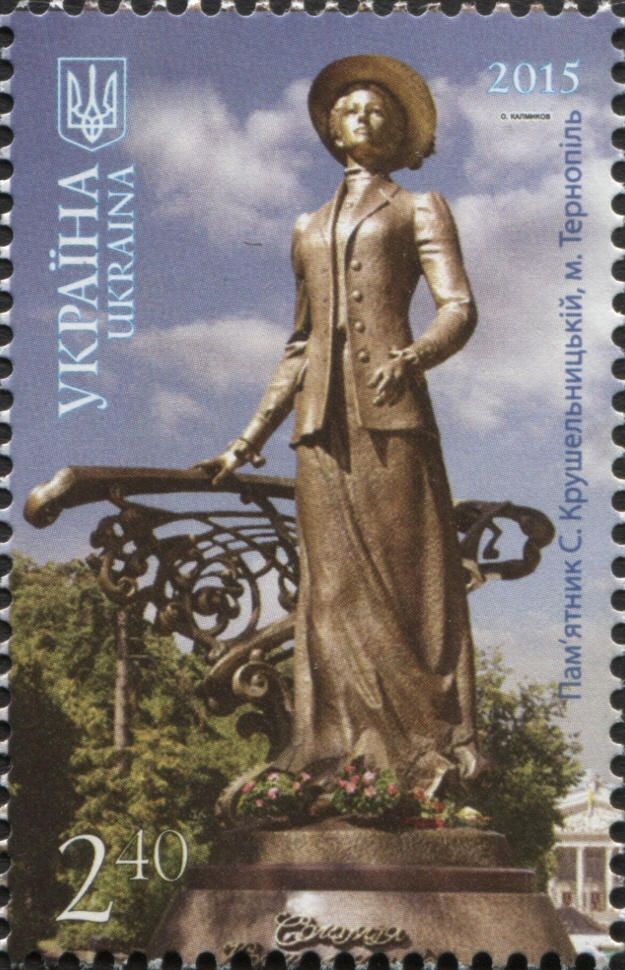 Stamps of Ukraine, 2015